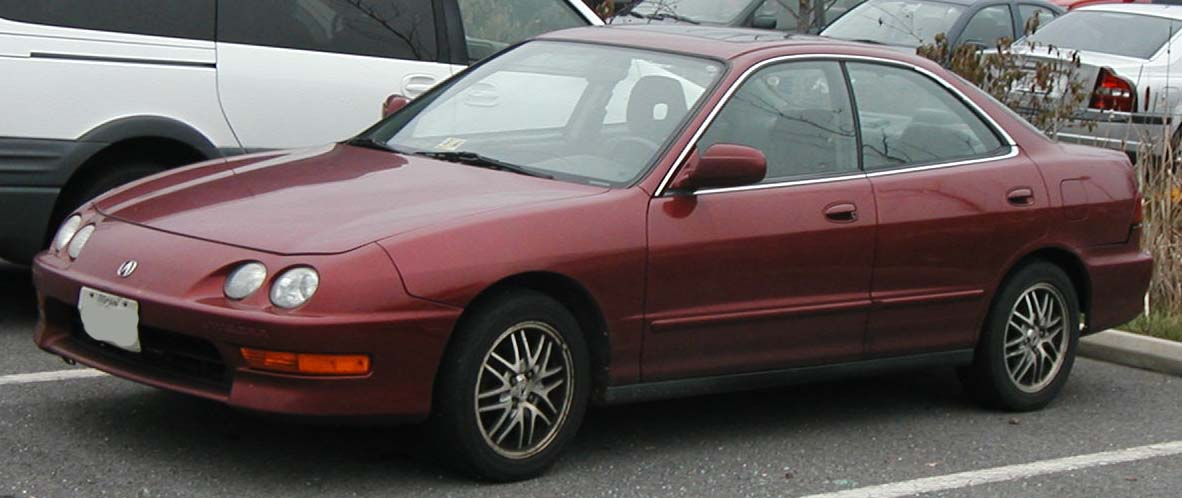 1994-2001 Acura Integra sedan photographed in USA.